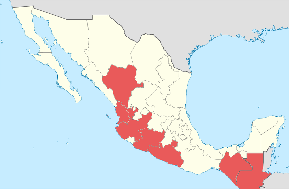 Range map of Heloderma horridum